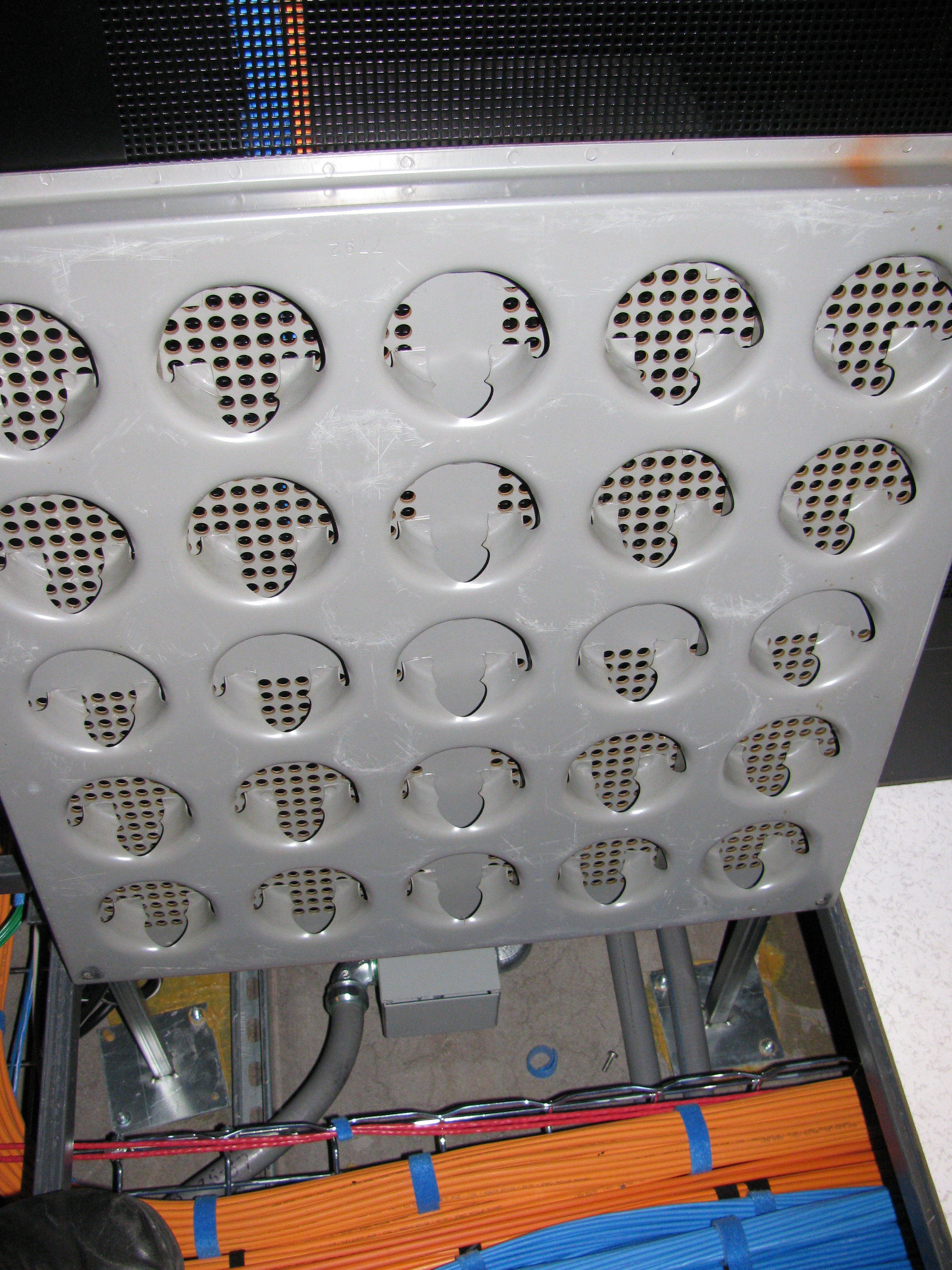 Bottom of raised floor perferated cooling panel